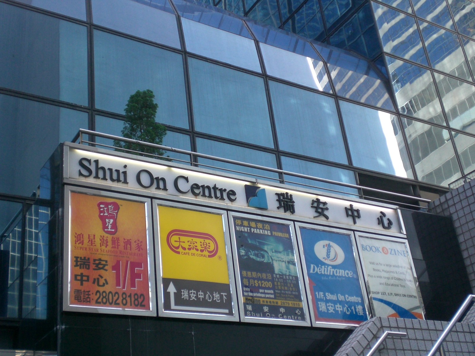 灣仔北zh:港灣道zh:瑞安中心